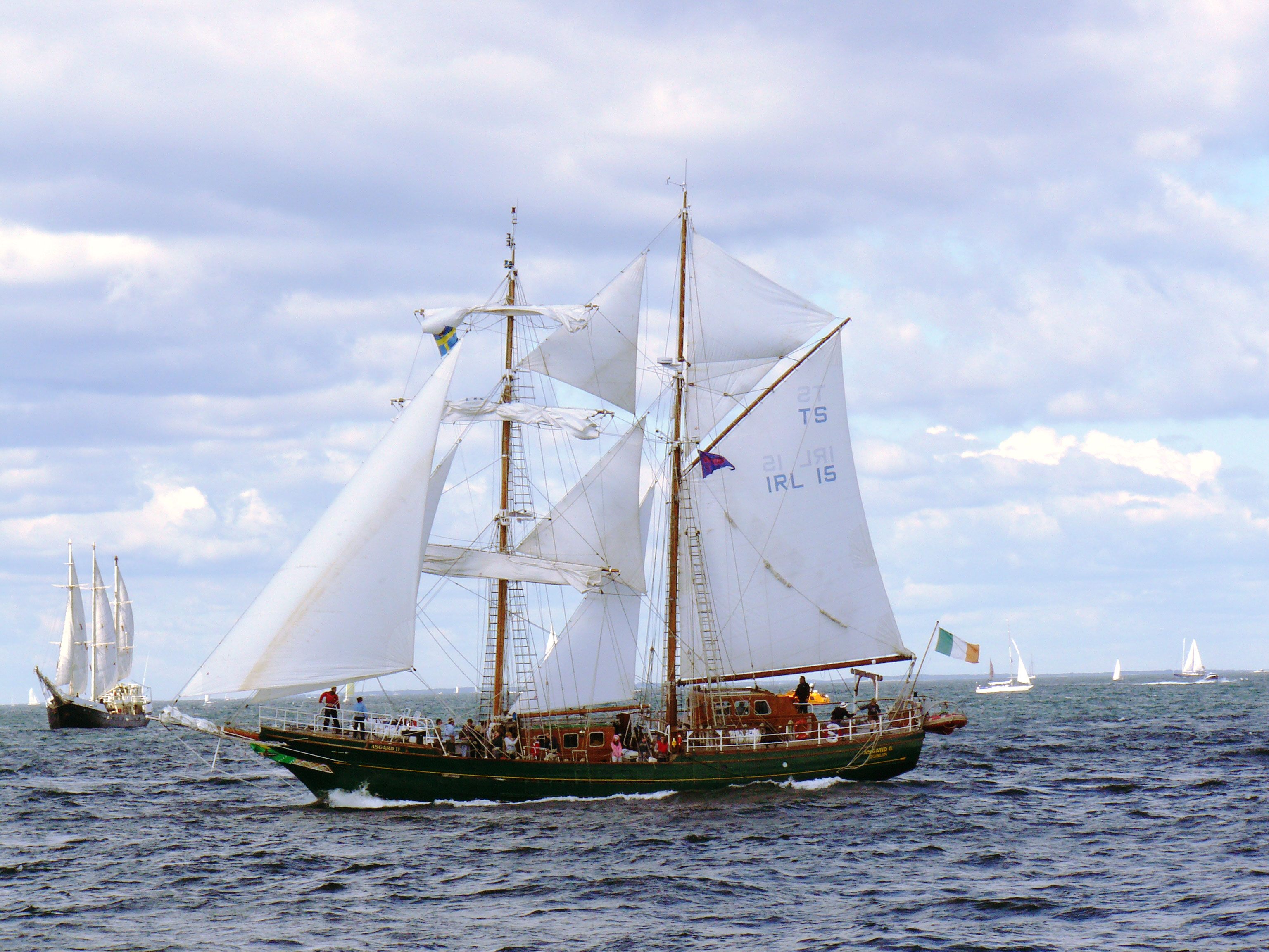 Asgard II